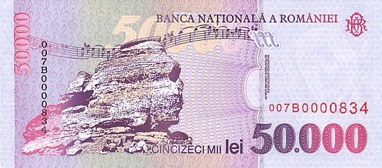 50 000 Romanian leu from 2000 - reverse